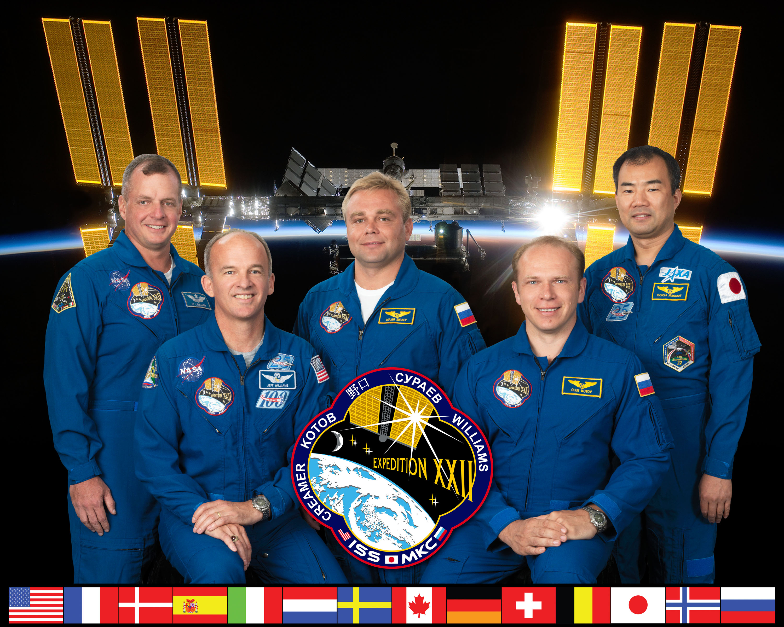 Expedition 22 crew members. From the left (front row) are NASA astronaut Jeffrey Williams, commander; and Russian cosmonaut Oleg Kotov, flight engineer. From the left (back row) are NASA astronaut T.J. Creamer, Russian cosmonaut Maxim Suraev and Japan Aerospace Exploration Agency (JAXA) astronaut Soichi Noguchi, all flight engineers.